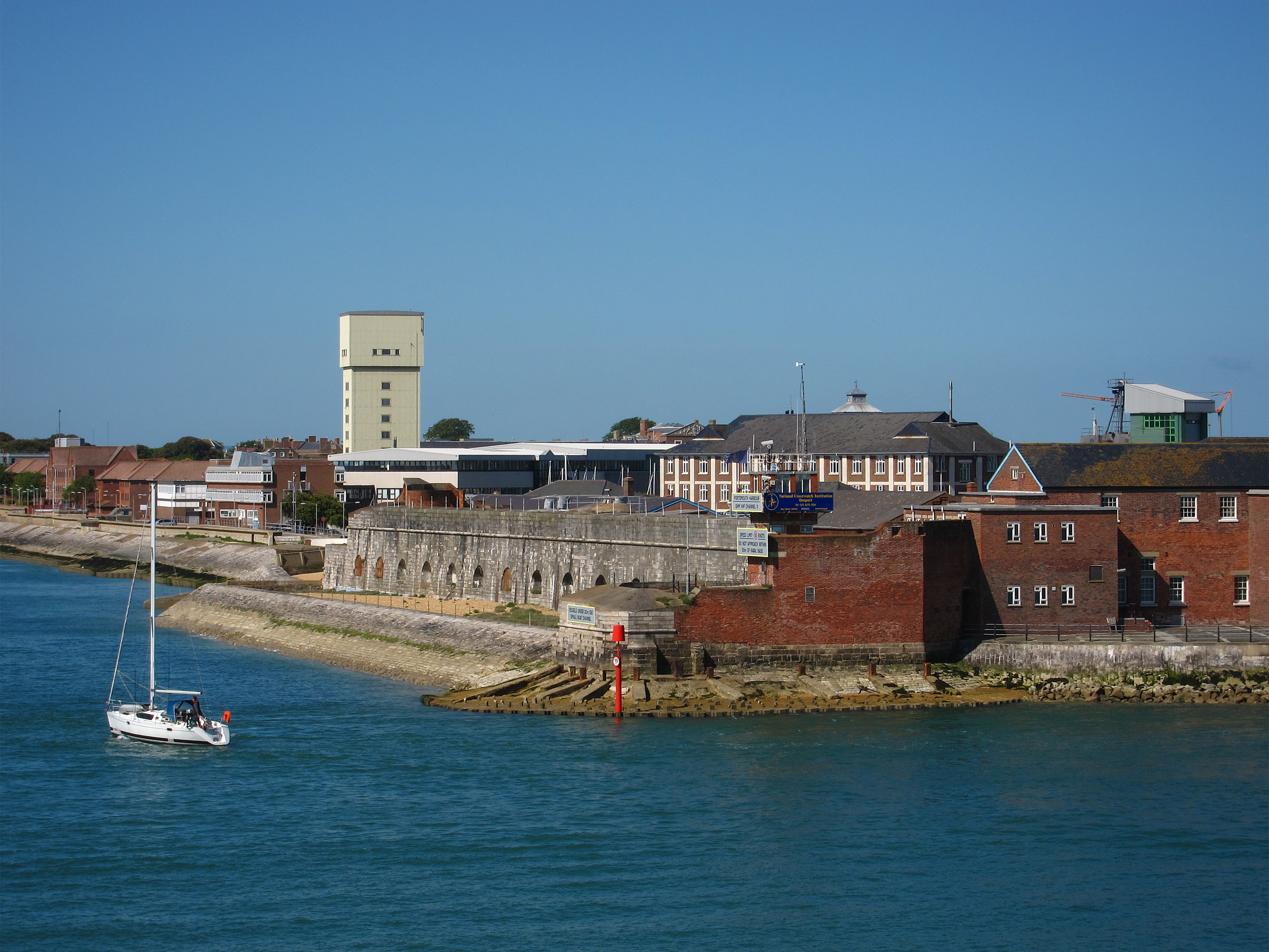 Fort Blockhouse Wikidata has entry Q5470828 with data related to this item.